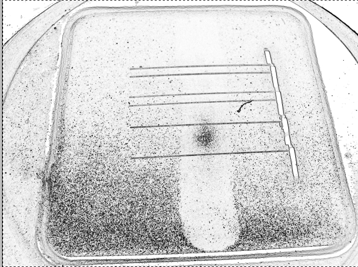 Dust on Solar Panel,made more visible by inversing the layer.